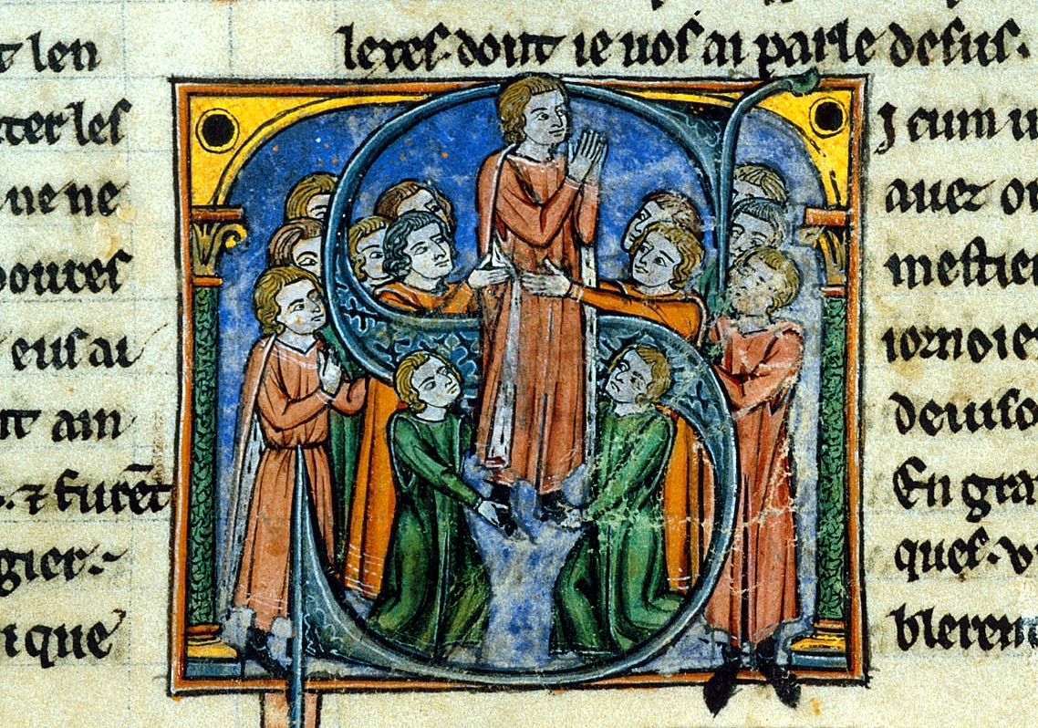 The British Museum description reads "Detail of an historiated initial 'S'(i cum) of Godfrey of Bouillon being created the Lord of the city"